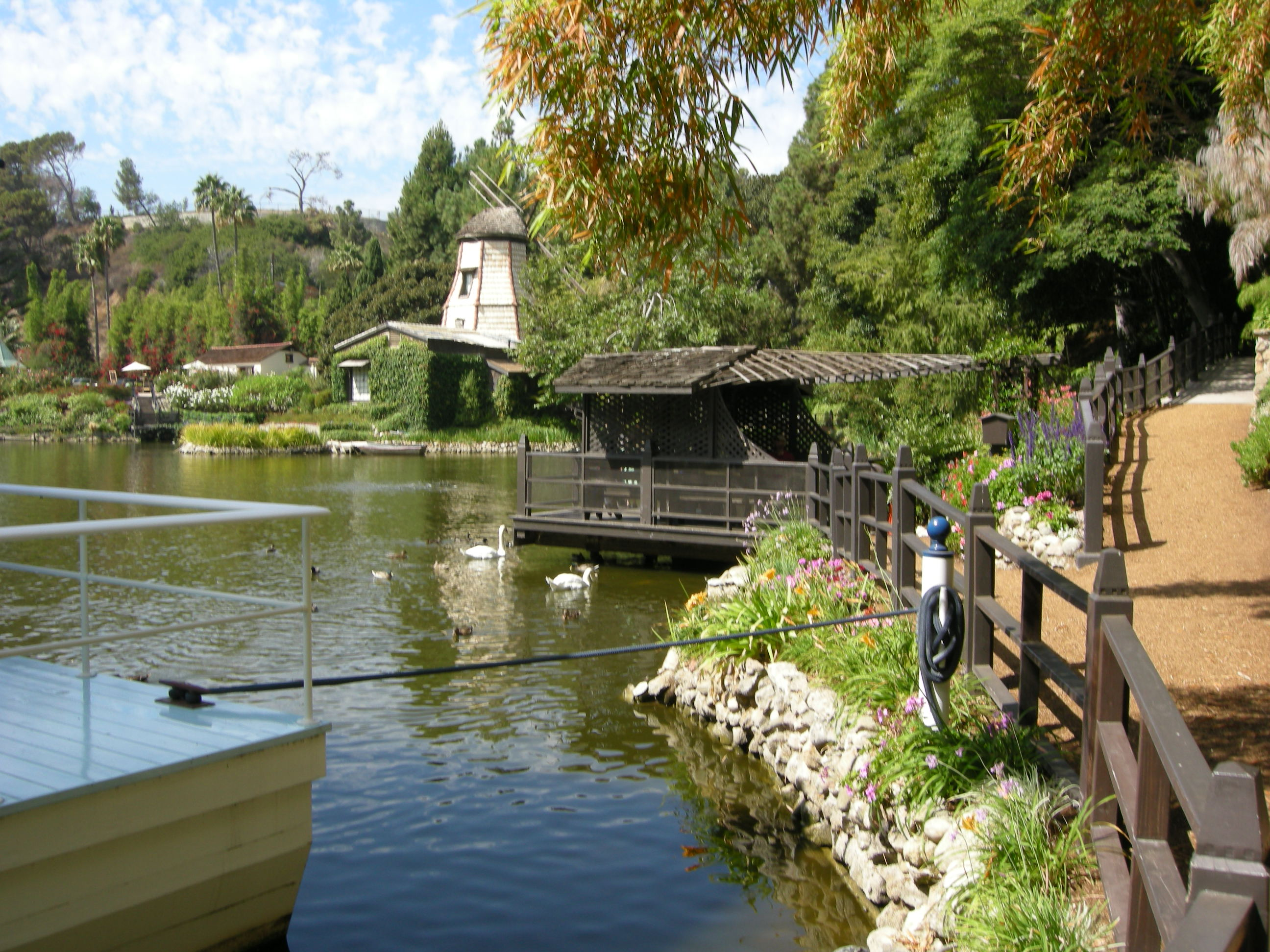 Dutch Windmill Chapel on the Lake Shrine, Los Angeles.